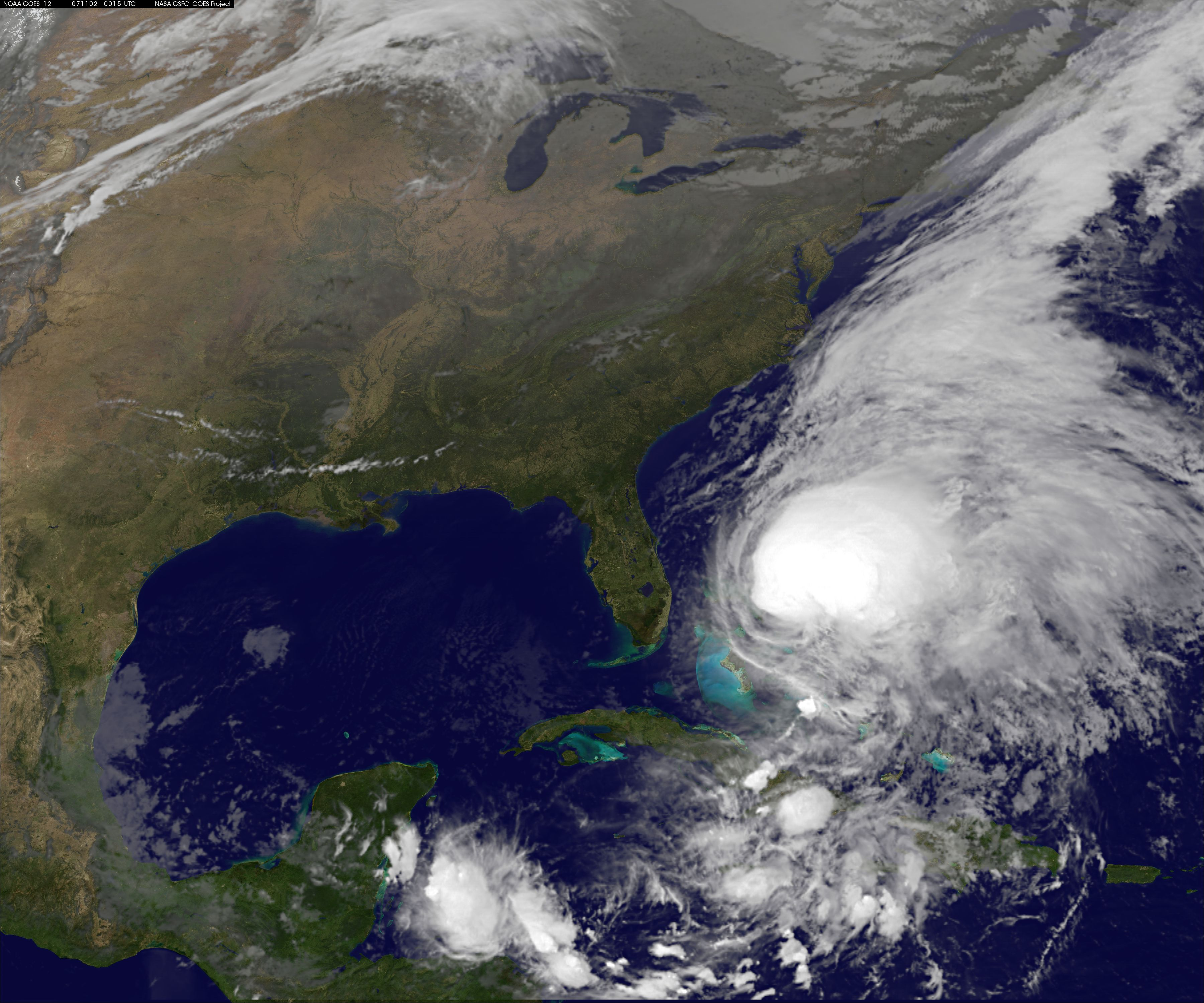 Hurricane Noel on November 2 at approximately 0015 UTC, as seen by GOES-12